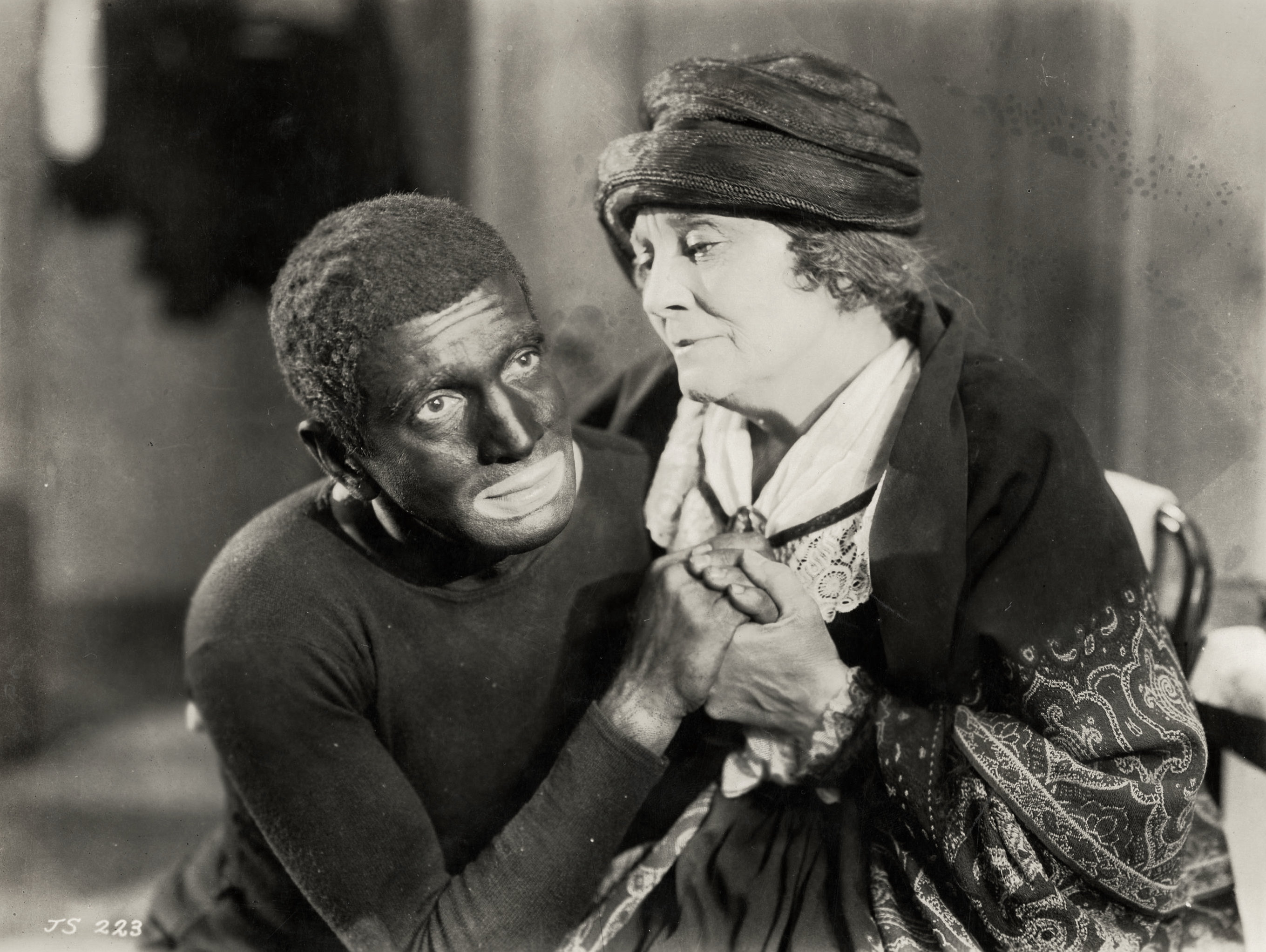 Warner Bros. publicity photo for the film The Jazz Singer, featuring Al Jolson as Jack Robin and Eugenie Besserer as his mother, Sara Rabinowitz.